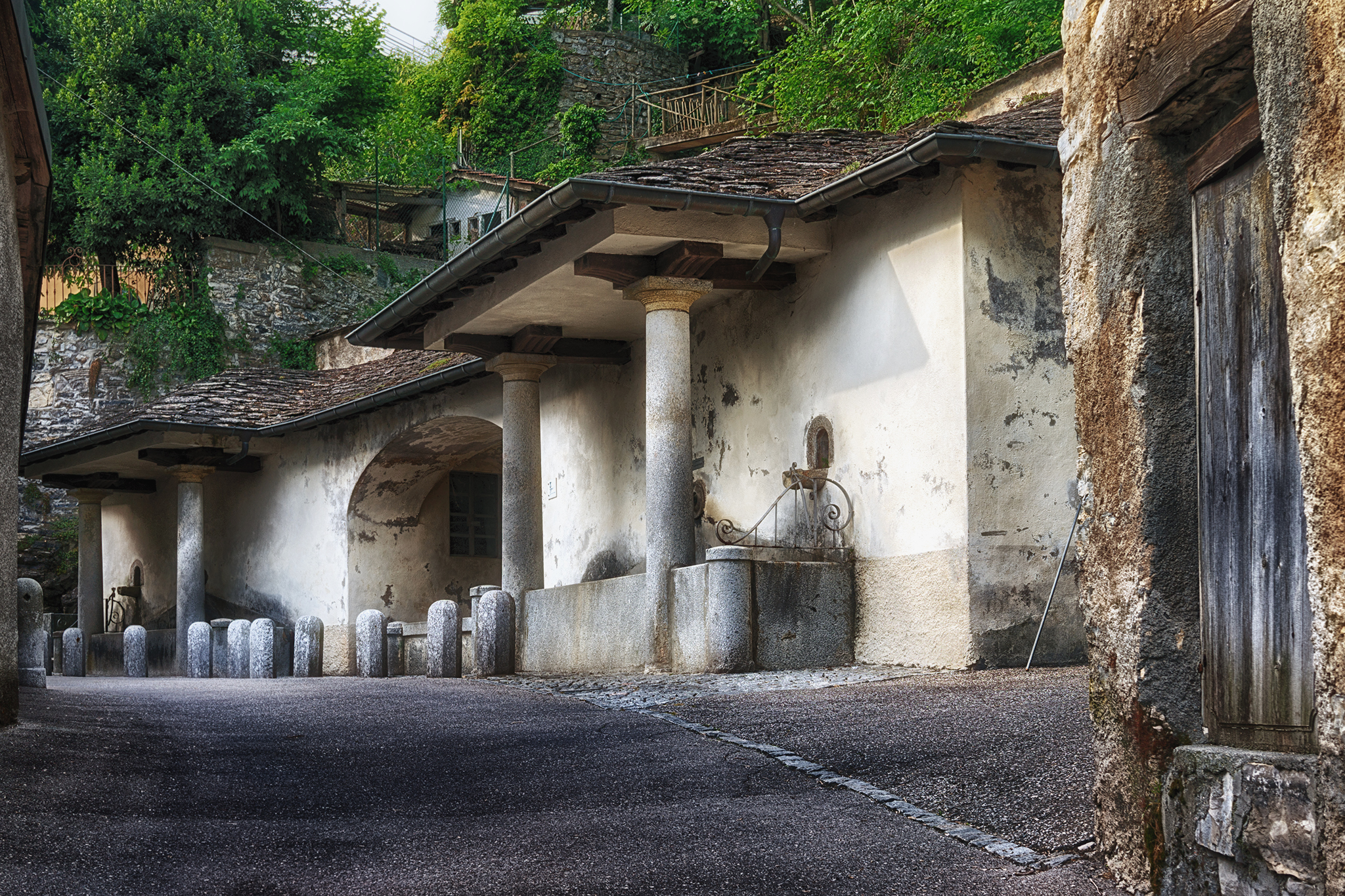 Public fountain and wash house of Cabbio